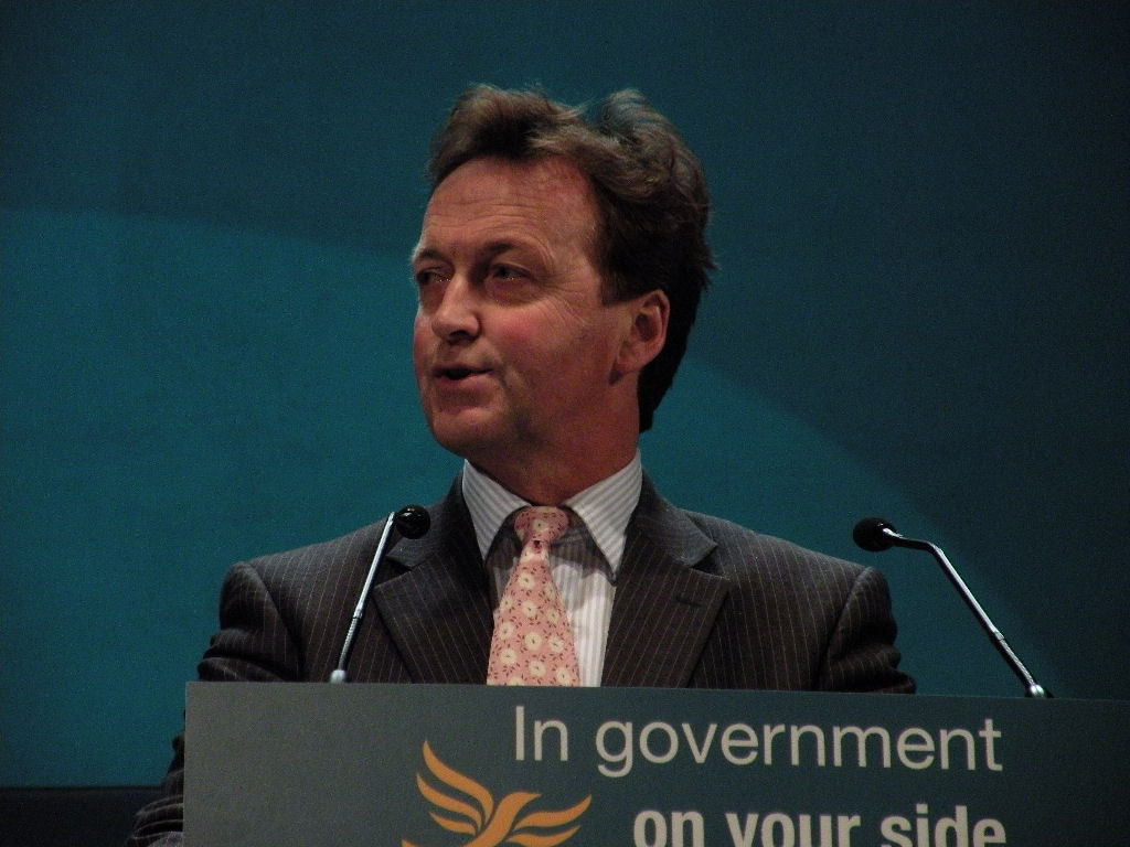 Andrew George MP addressing a Liberal Democrat conference in Sheffield City Hall